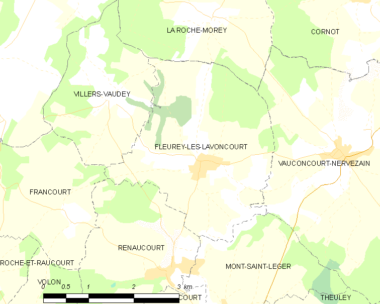 Map of French municipality